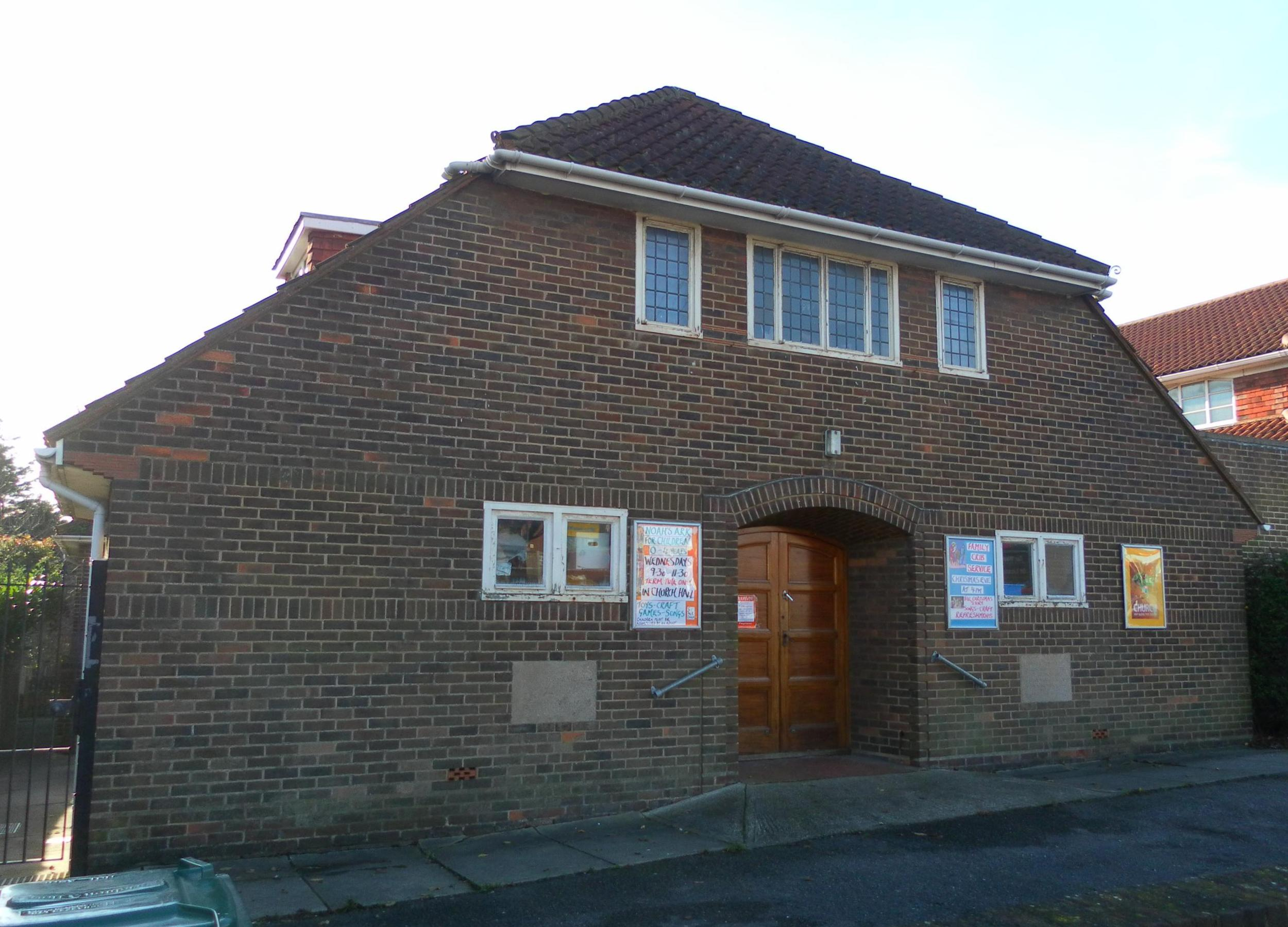 The church hall next to the Hounsom Memorial United Reformed Church, Nevill Avenue, Hangleton, City of Brighton and Hove, England. Built in 1951 to a design by John Leopold Denman.